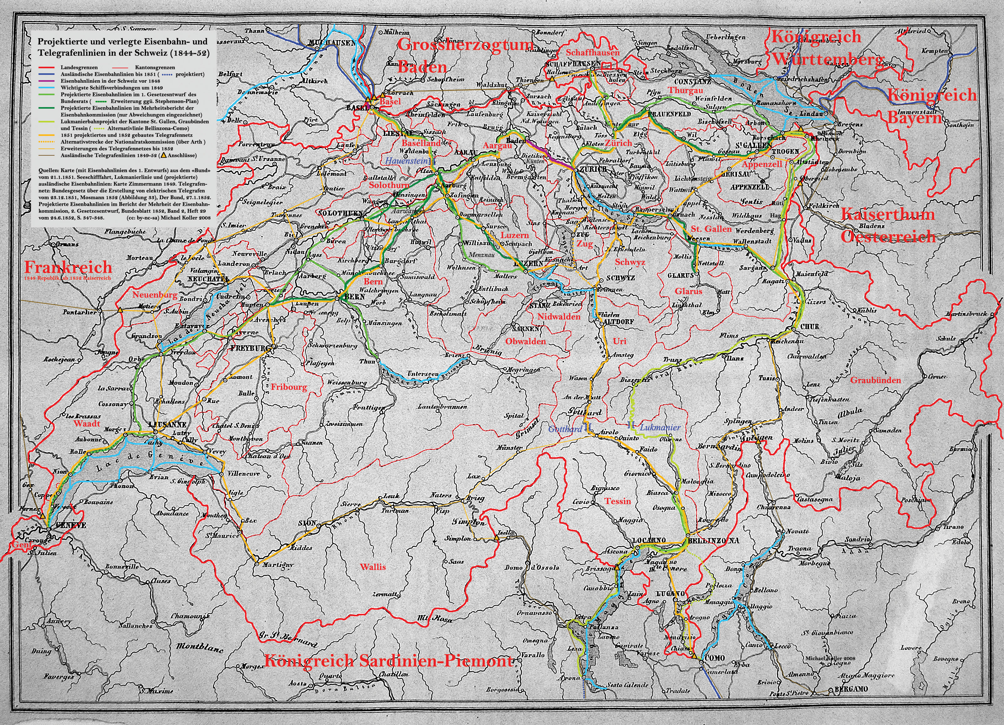 Projected and built railroad- and telegraphlines in and around Switzerland 1852